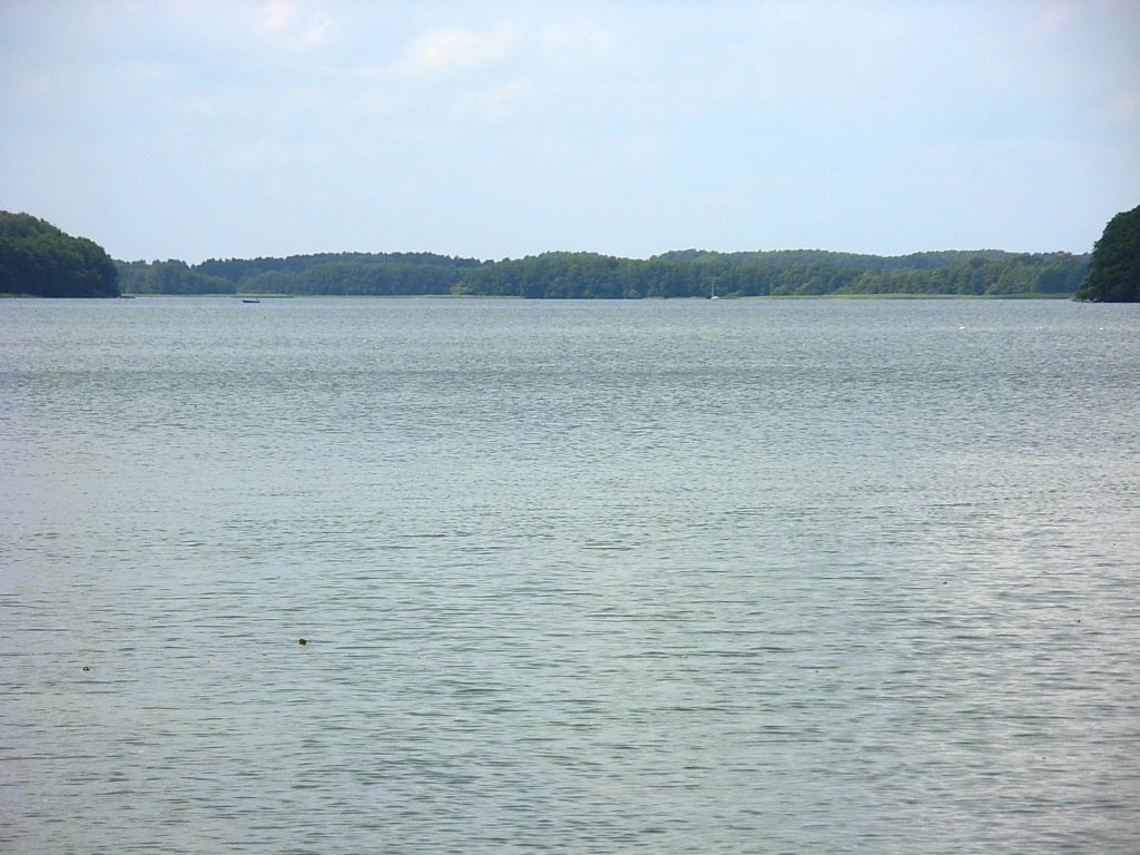 Lake Drawsko